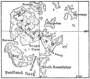 Map of Category:Scapa Flow